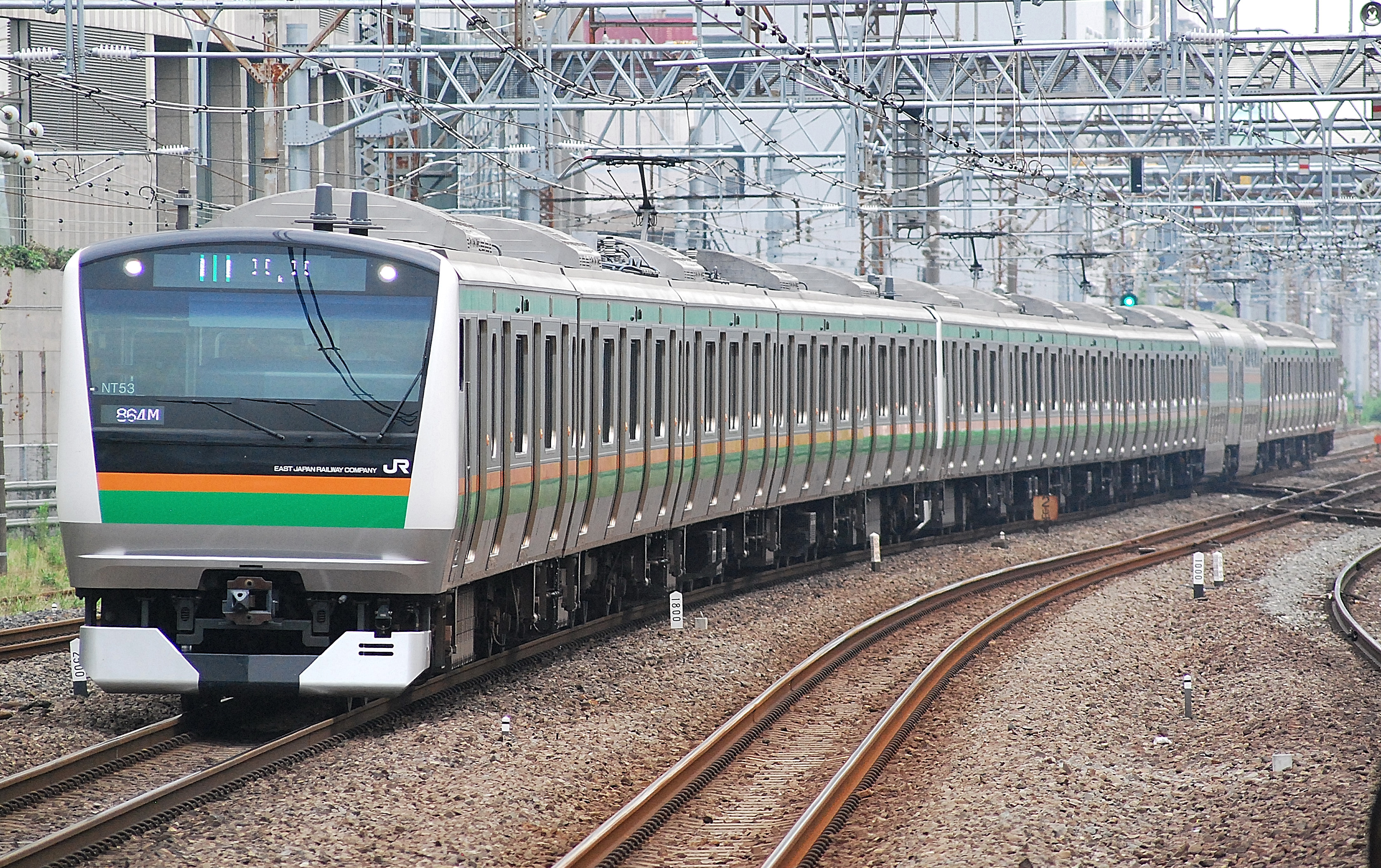 JR East E233-3000 series EMU sets NT53 and NT3 approaching Kawasaki Station on a Tokaido Line service